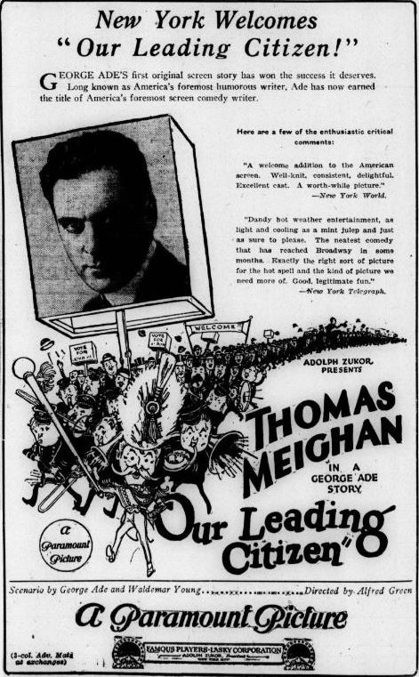 Advertisement for the American comedy film Our Leading Citizen (1922) with Thomas Meighan, on page 40 of the June 16, 1922 Variety.